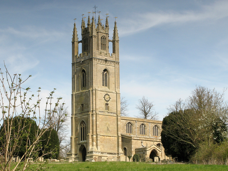 St Peter's parish church, Lowick, Northamptonshire, seen from the southwest